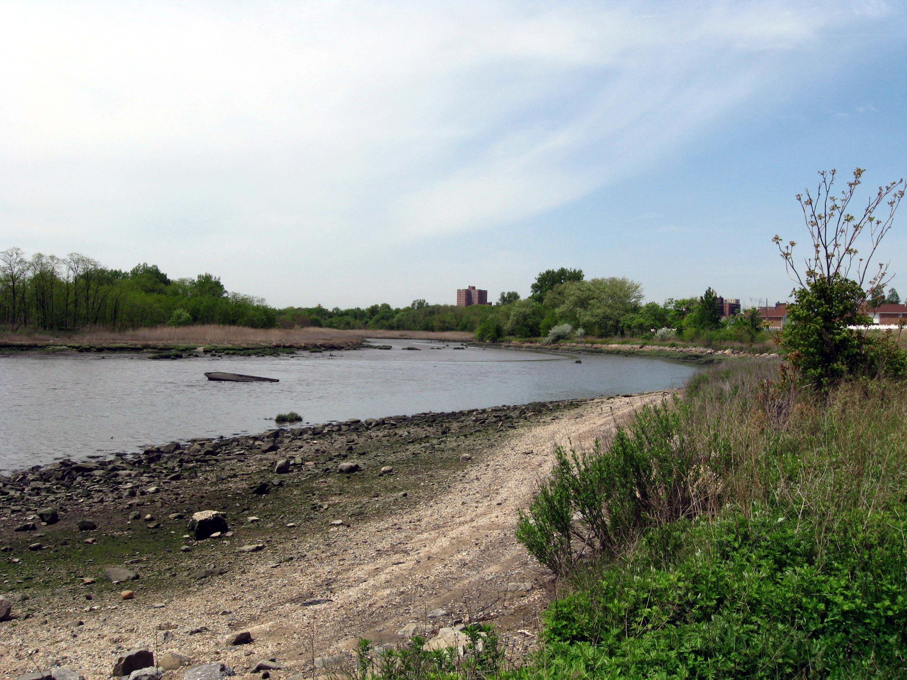 Looking northwest on a springtime May 11 2008 early afternoon up Pugsley Creek with Castle Hill Neck on the right and Clason Point, Bronx on the left.